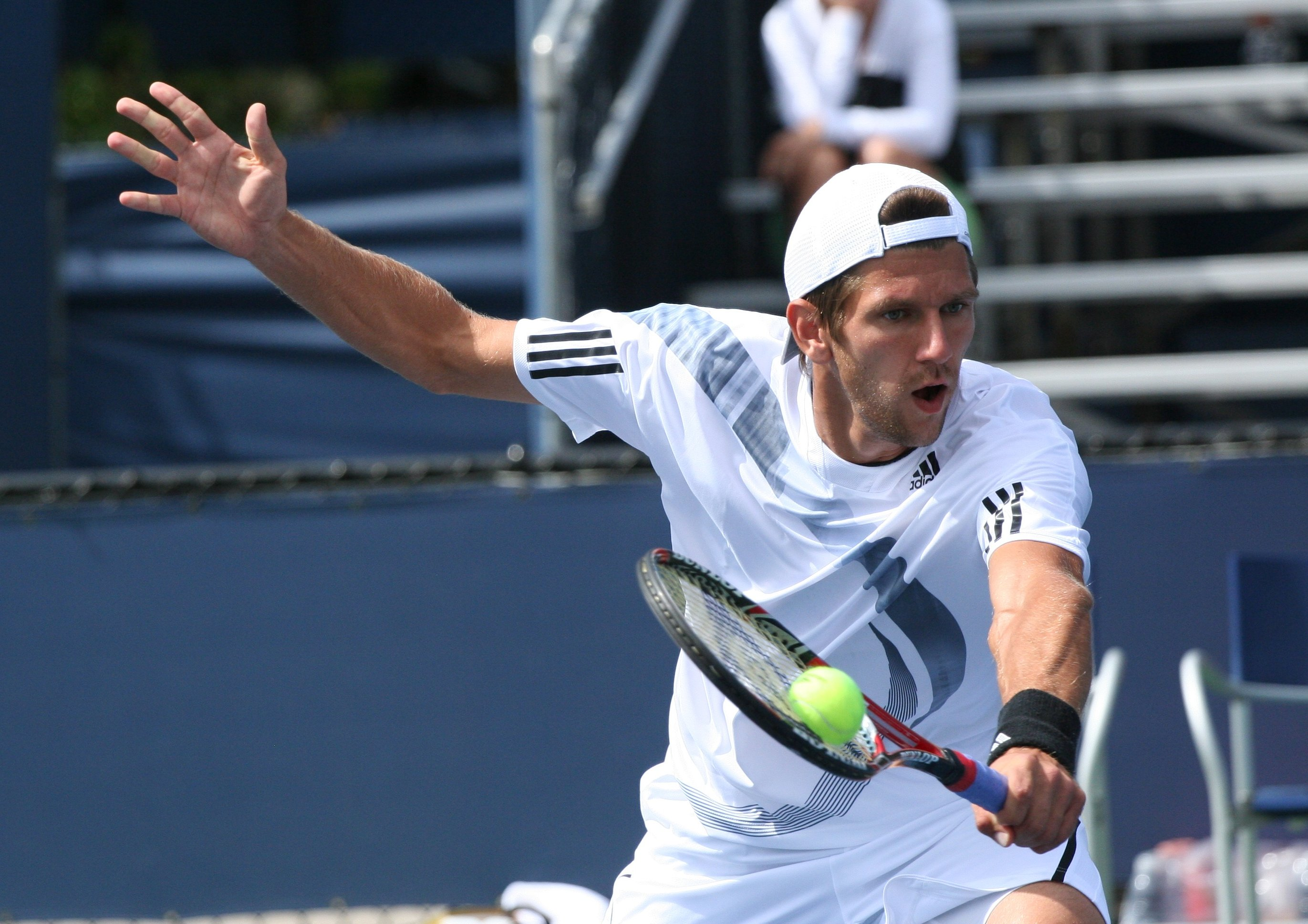 U.S. Open Thursday, Sept. 3, 2009